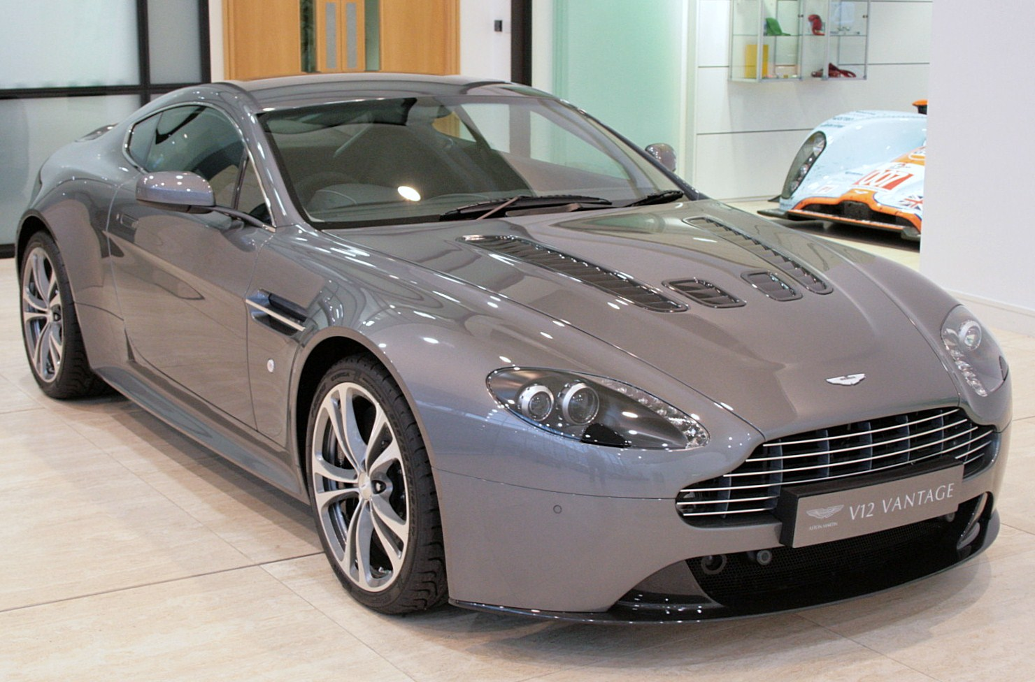 The mean looking Aston Martin V12 VantageV12 Vantage